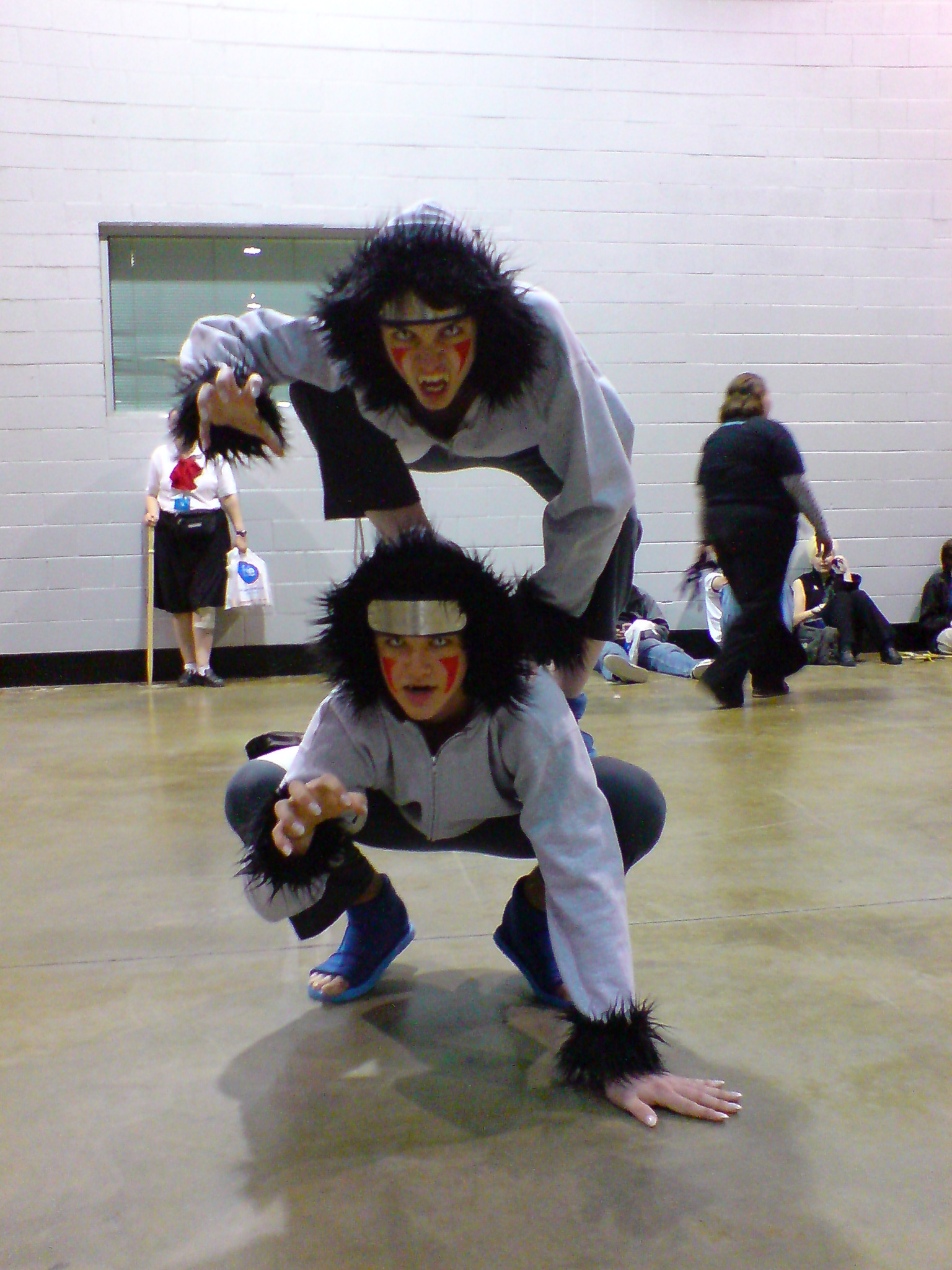 Naruto cosplay at Anime Central Convention 2008